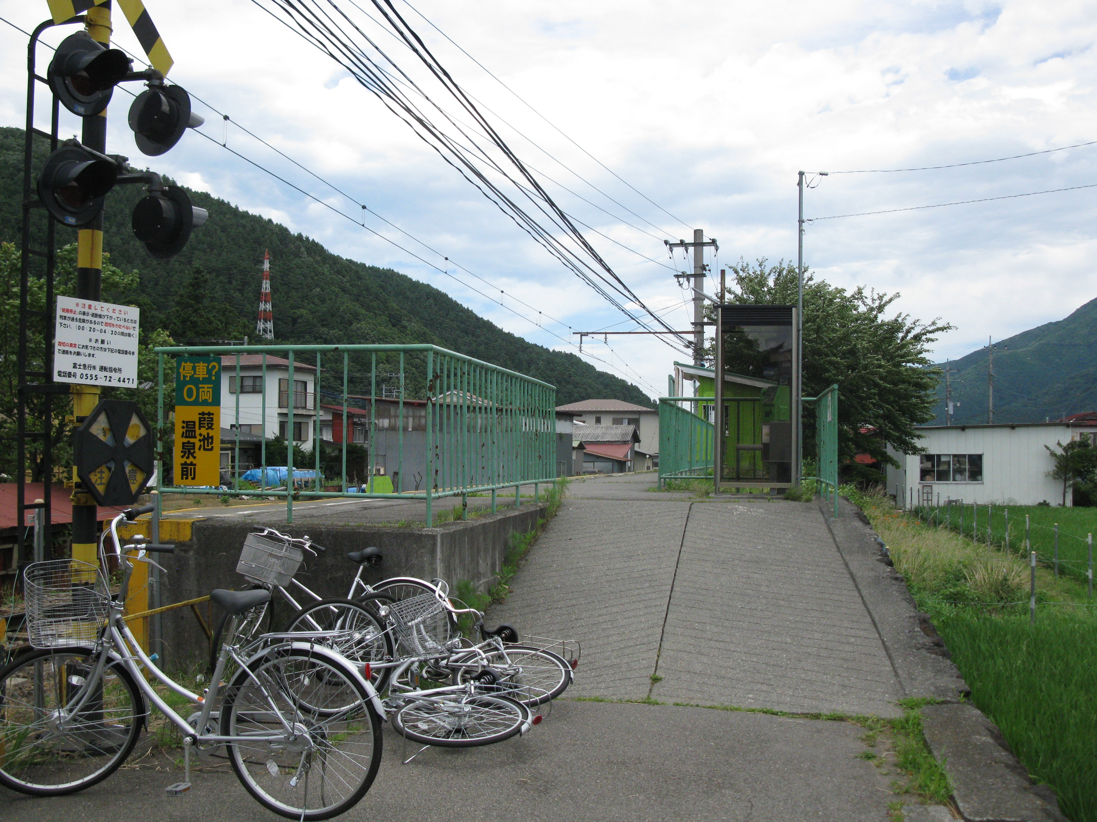 Yoshiike-onsenmae Station entrance (Fuji Kyuko Ōtsuki Line)